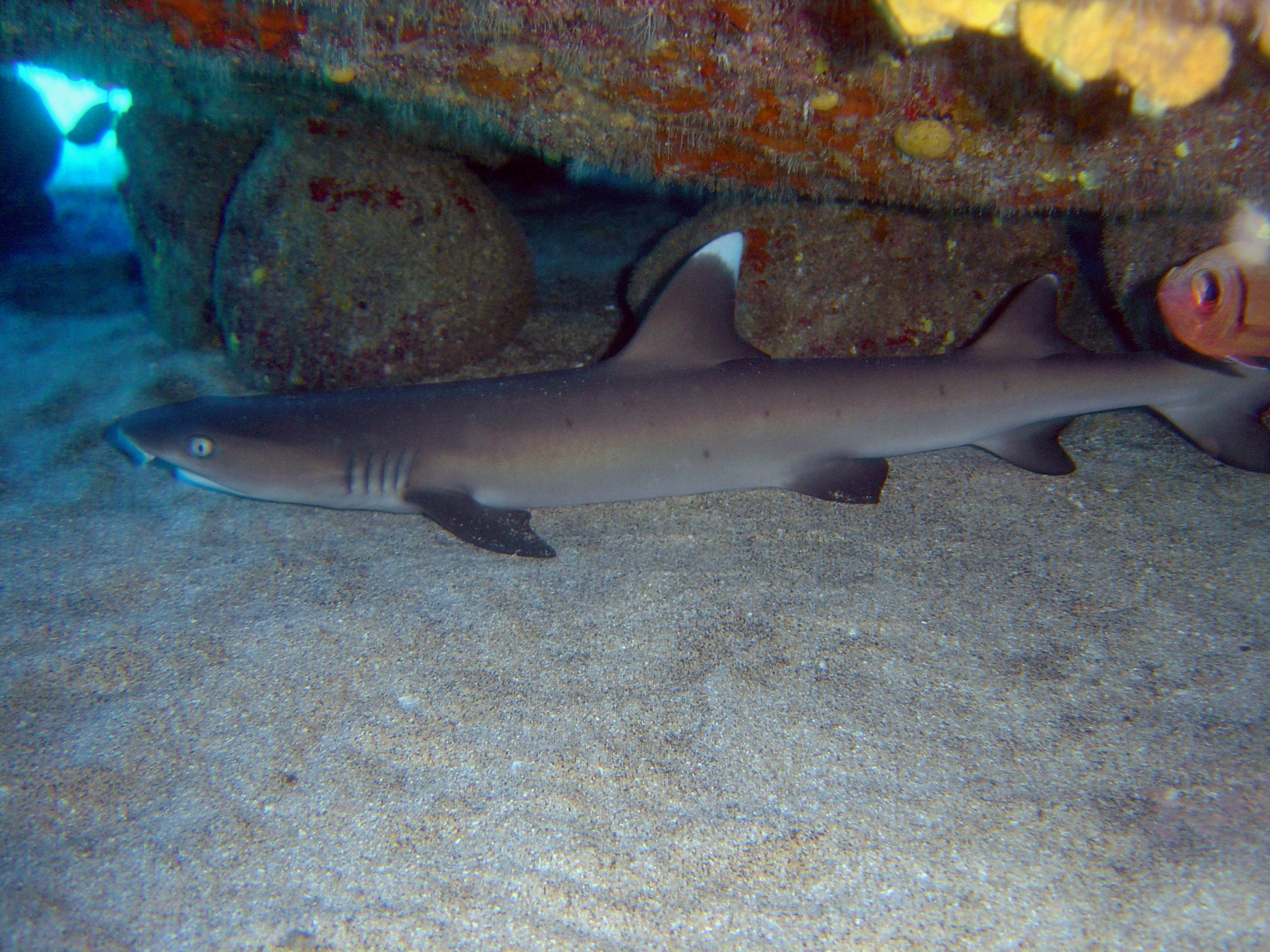 Triaenodon obesus, Guam, Mariana Islands